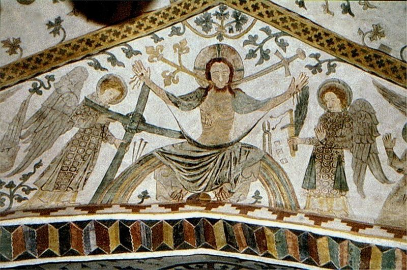 Birkerød Kirke (church)